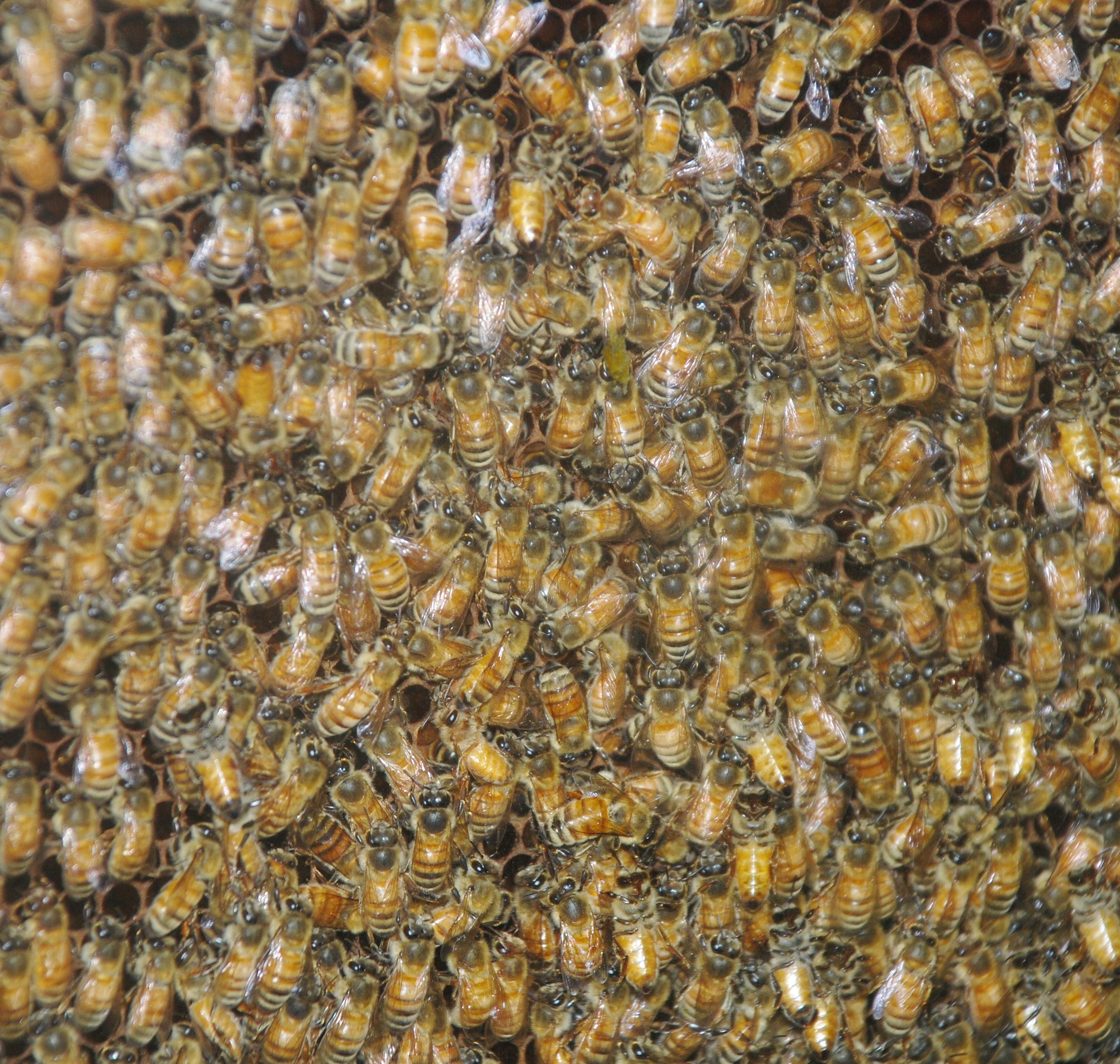 Invertebrates in Smithsonian National Zoological Park: Apoidea - Honeybees